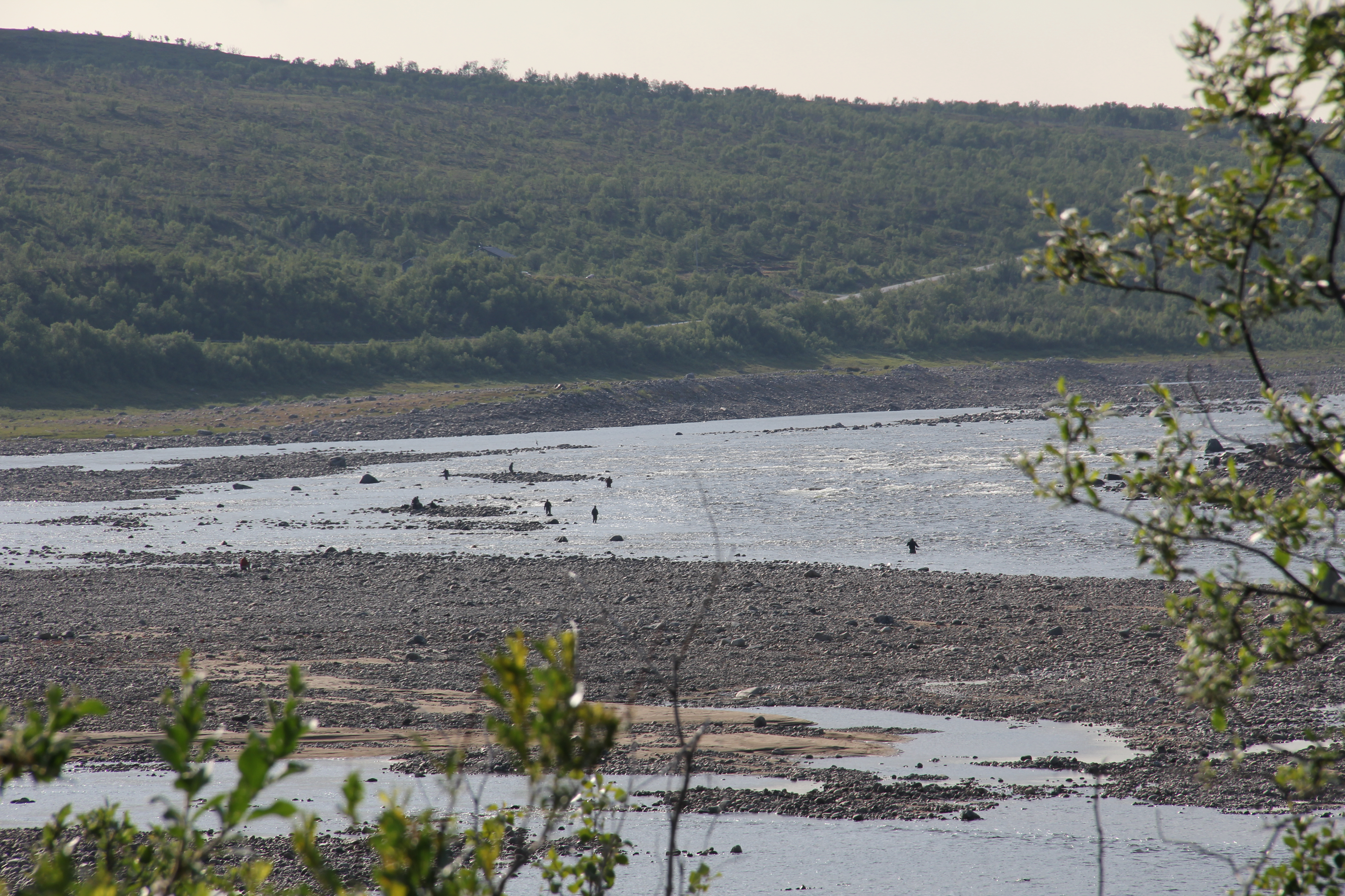 Tana river, Boratbokca fishing area, Utsjoki, Finland. - Fishermen. - Background road: national road 970, Finland.